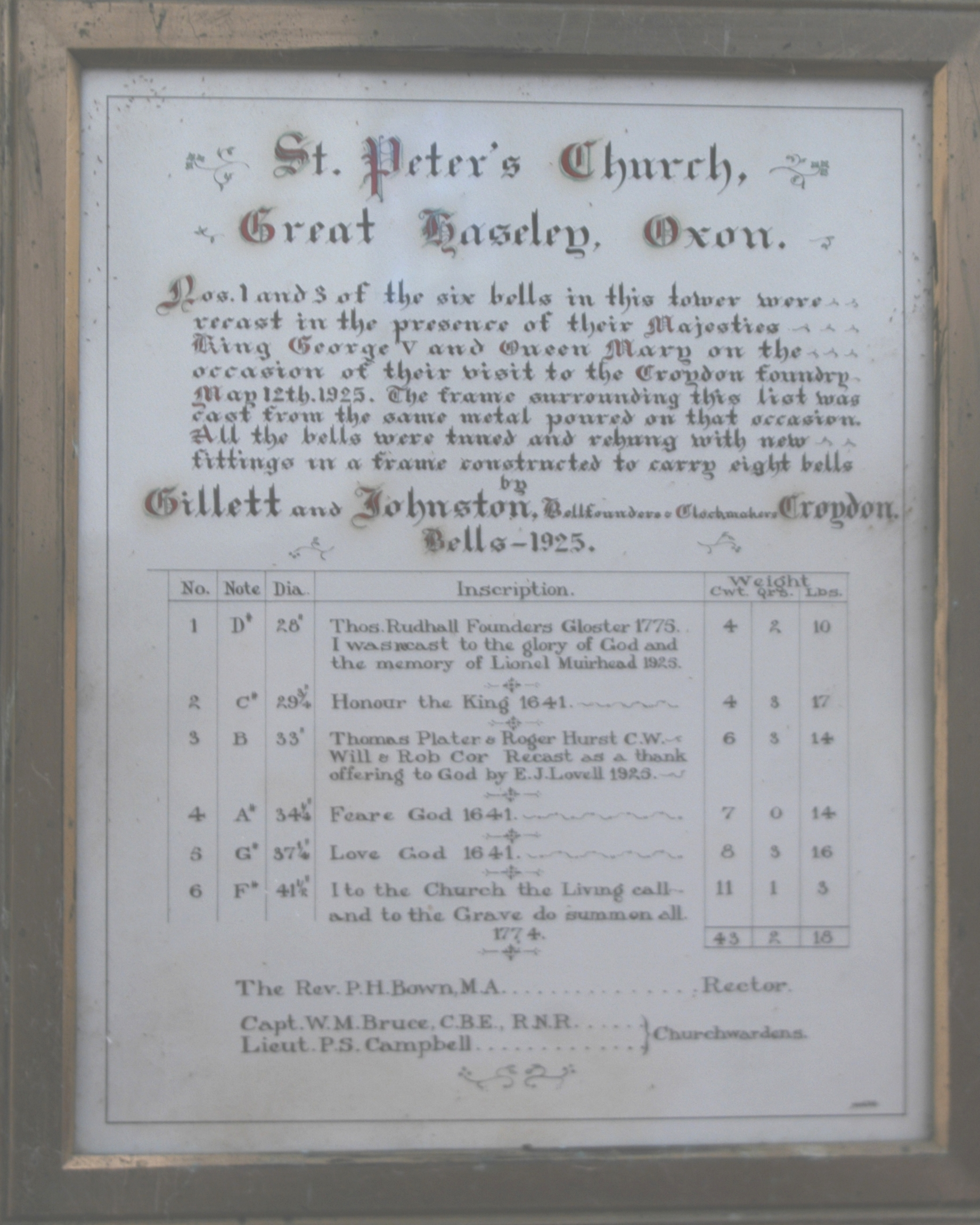 Church of England parish church of St Peter, Great Haseley, Oxfordshire: list of the old bells before Gillett and Johnston recast them in 1925.